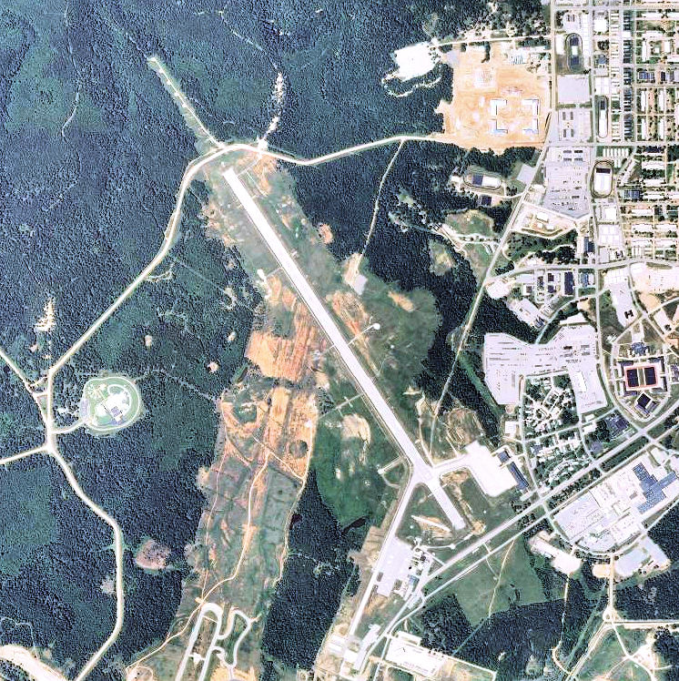 USGS digital orthophoto of Waynesville-St Robert Regional Airport in Missouri